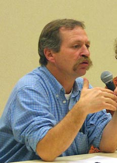 José Bové during a meeting (collection J. Tosti, free of rights).